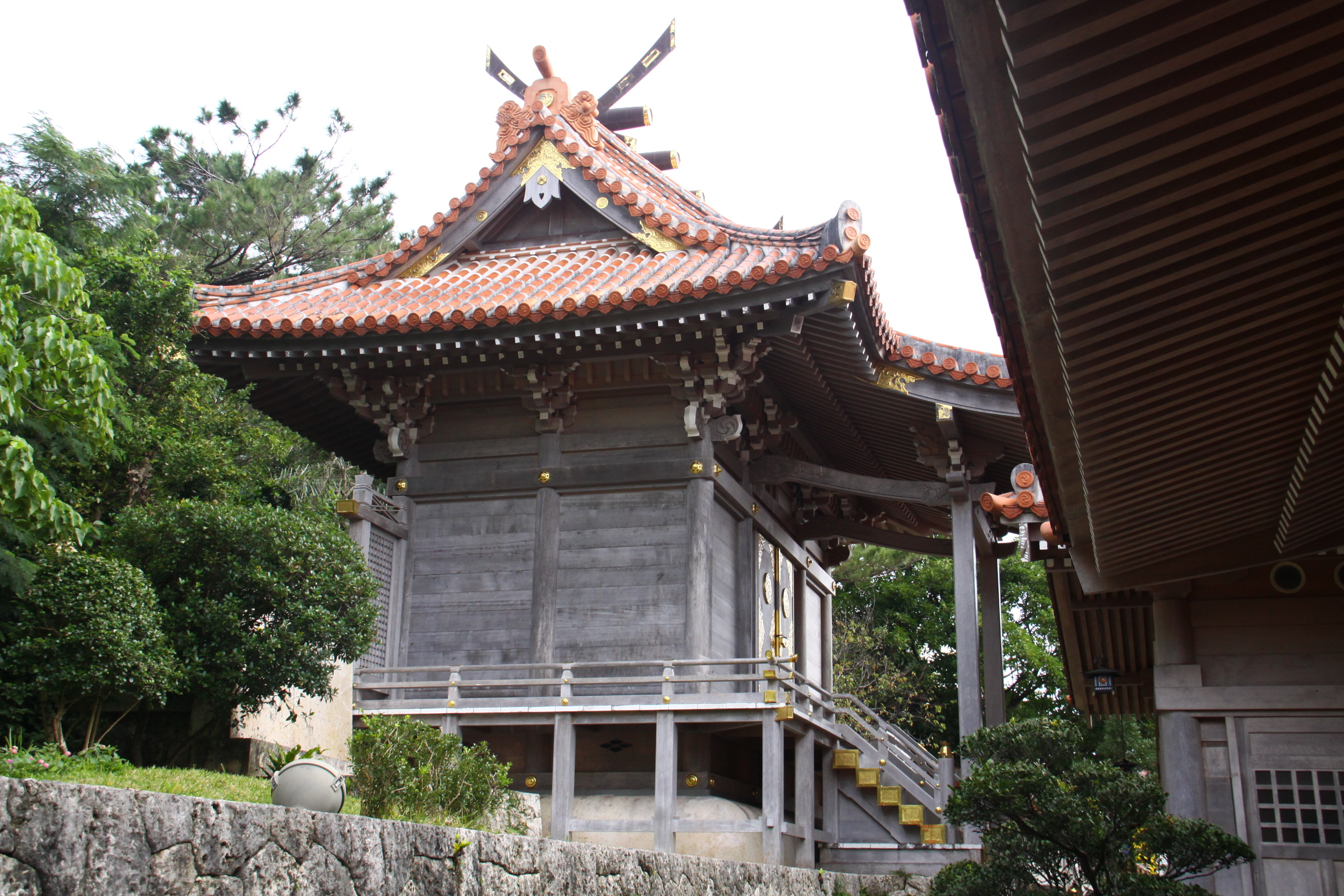 Futenma-gū Honden